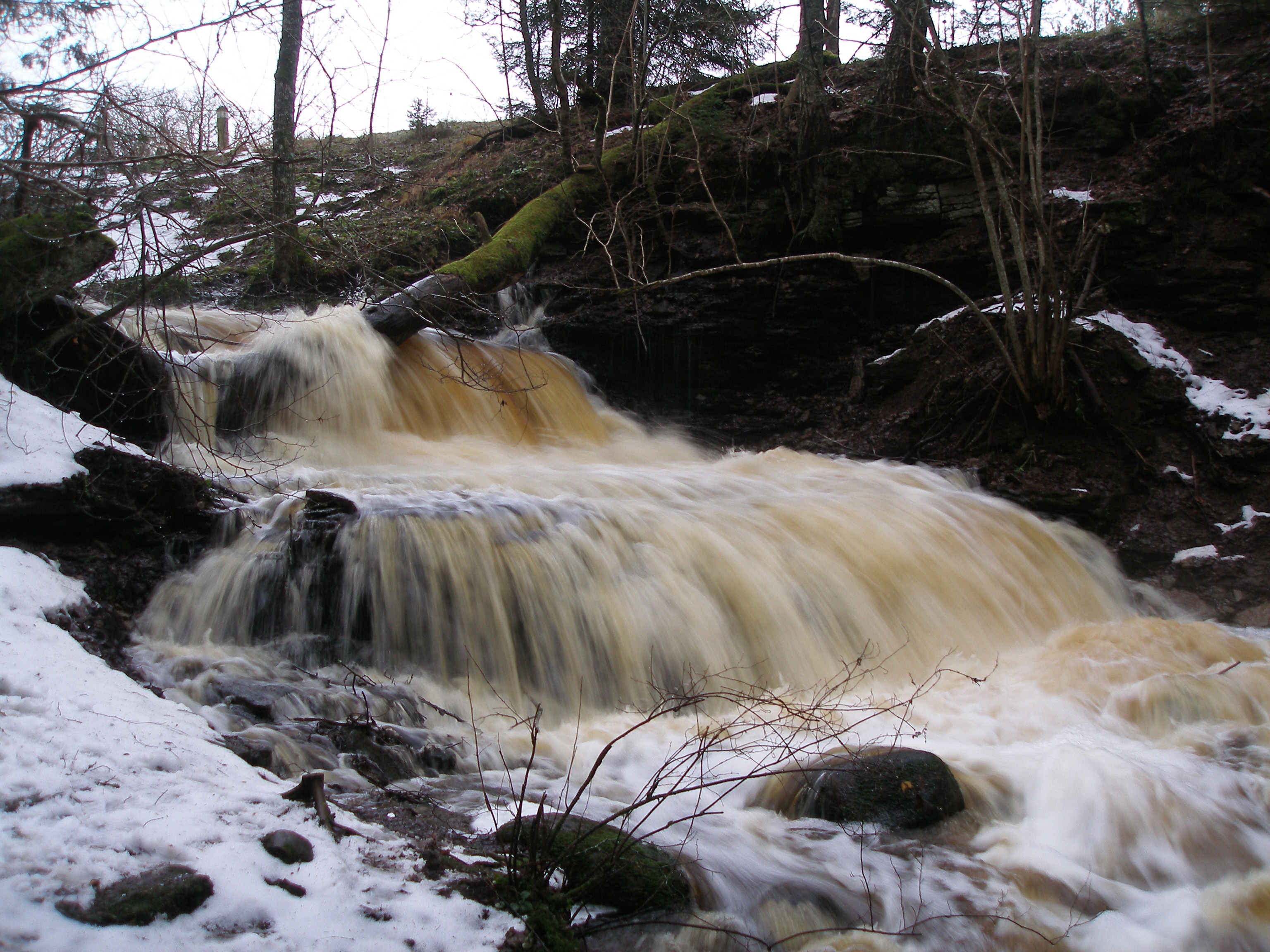 Vasaristi waterfall in Lahemaa National Park in winter 2008.